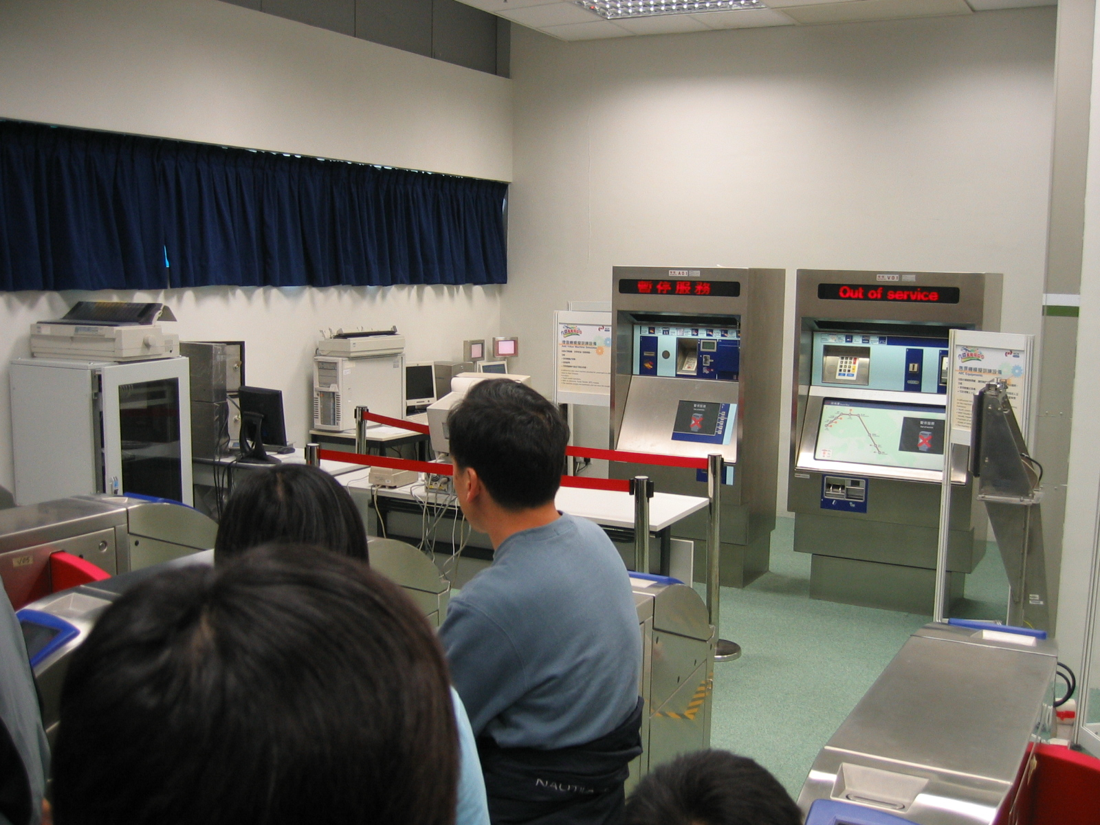 Pat Heung Maintenance Centre Training Centre